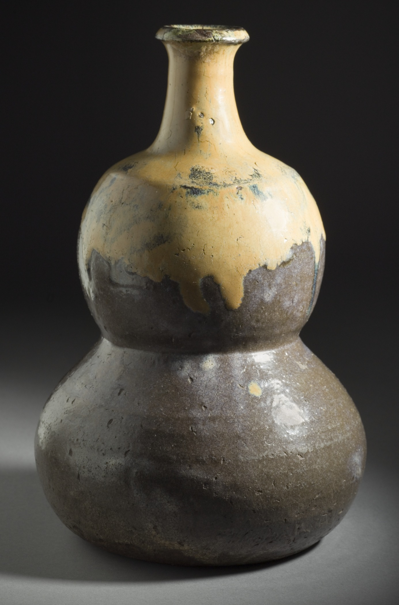 Japan, mid-late 17th century Furnishings; Accessories Takatori ware; stoneware with ash and brown glazes 10 3/4 x 6 5/8 in. (27.31 x 16.83 cm) Gift of James D. and Veronica H. Roorda (M.2003.199.3) Japanese Art